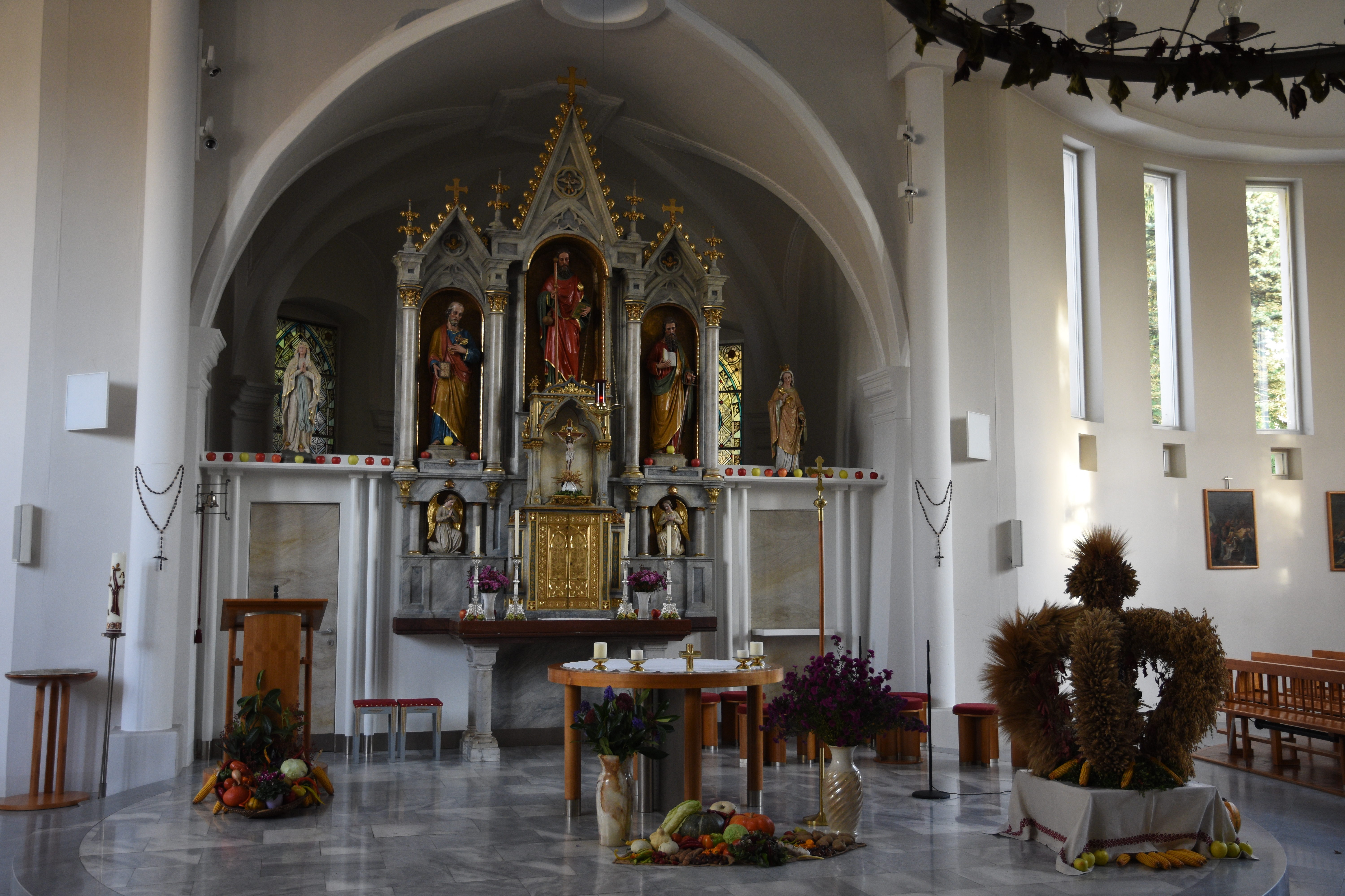 Pfarrkirche Edelsbach bei Feldbach